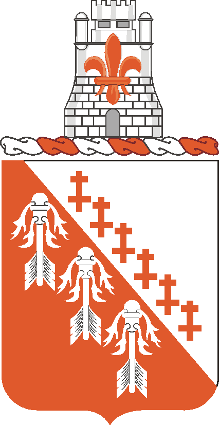 121st Signal Battalion COA from [1]